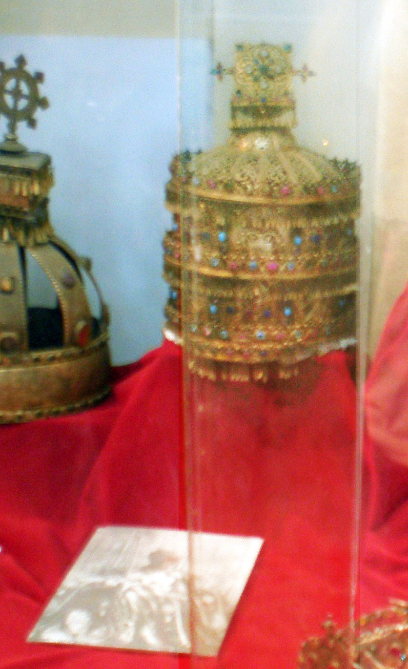 Emperor Menelik 's crown - Addis Abeba national Museum